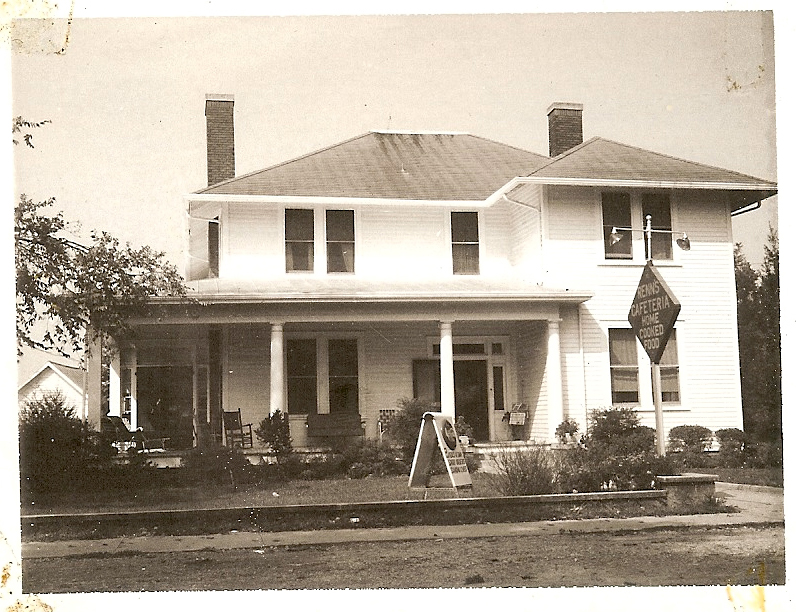 This is a picture of the famed Hambright family Renn's Cafeteria of Grover, NC where folks came from as far away as Charlotte, NC. Renn's Cafeteria came to strongly define Grover, NC and showcased it to the world as a loving and friendly place to live and grow up in.